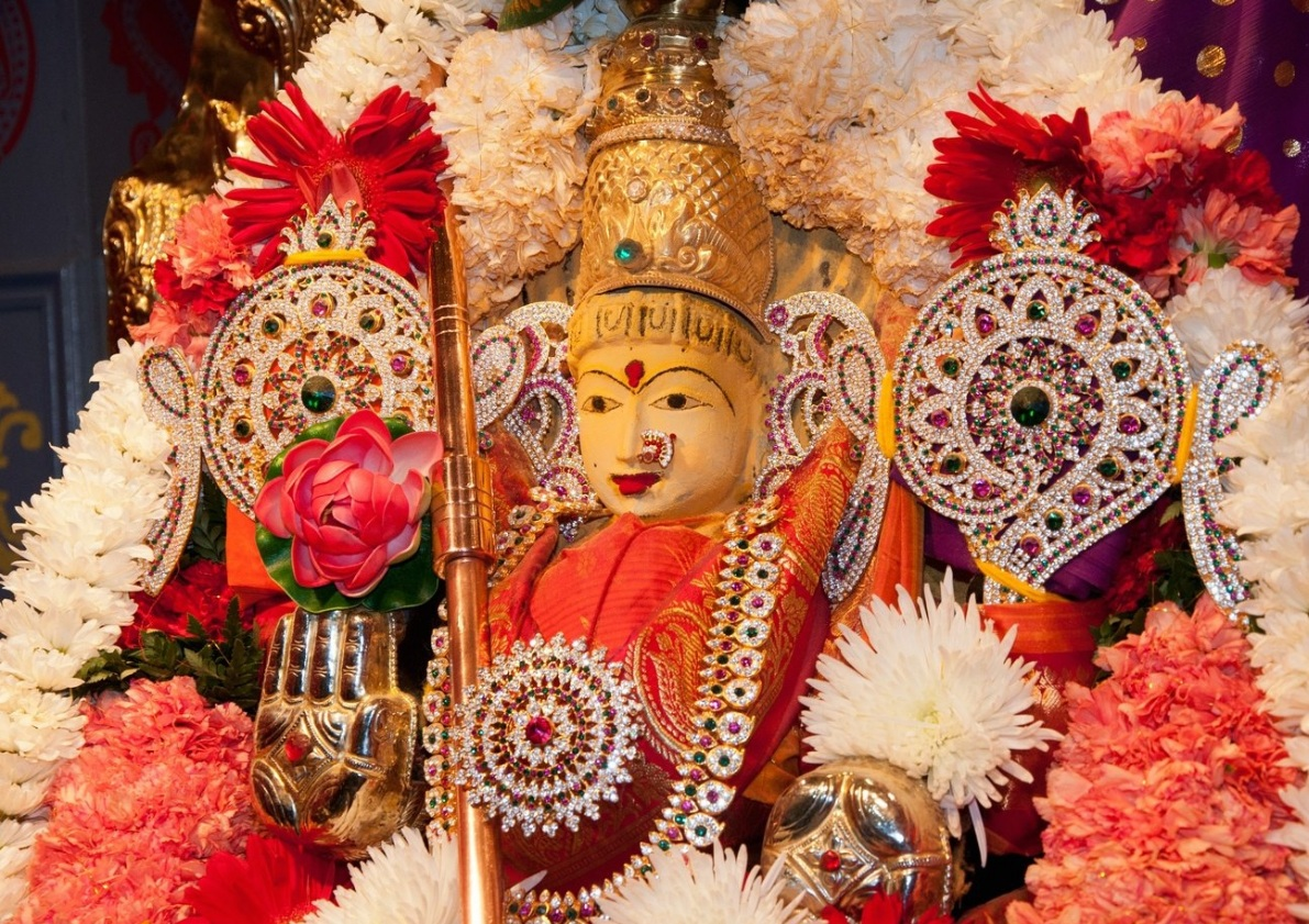 Picture taken at Parashakthi Temple in Pontiac, Michigan during Navarathri